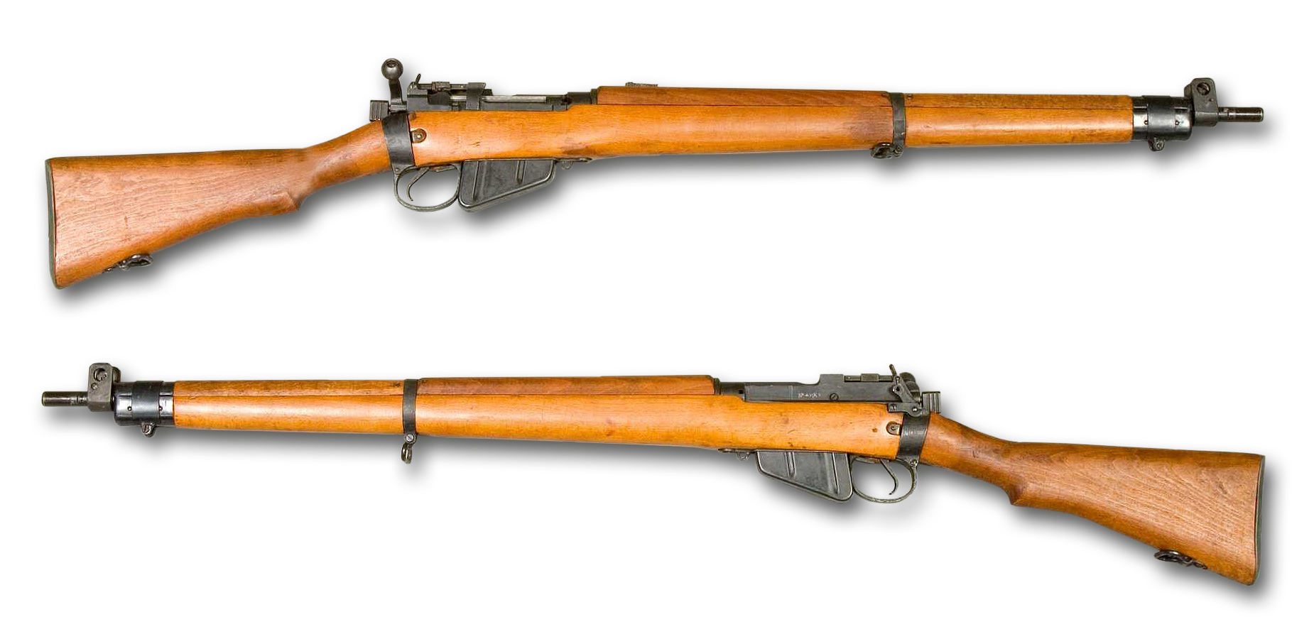 Lee-Enfield No 4 Mk I rifle, made in 1943. Caliber .303" British. From the collections of Armémuseum (Swedish Army Museum), Stockholm, Sweden.